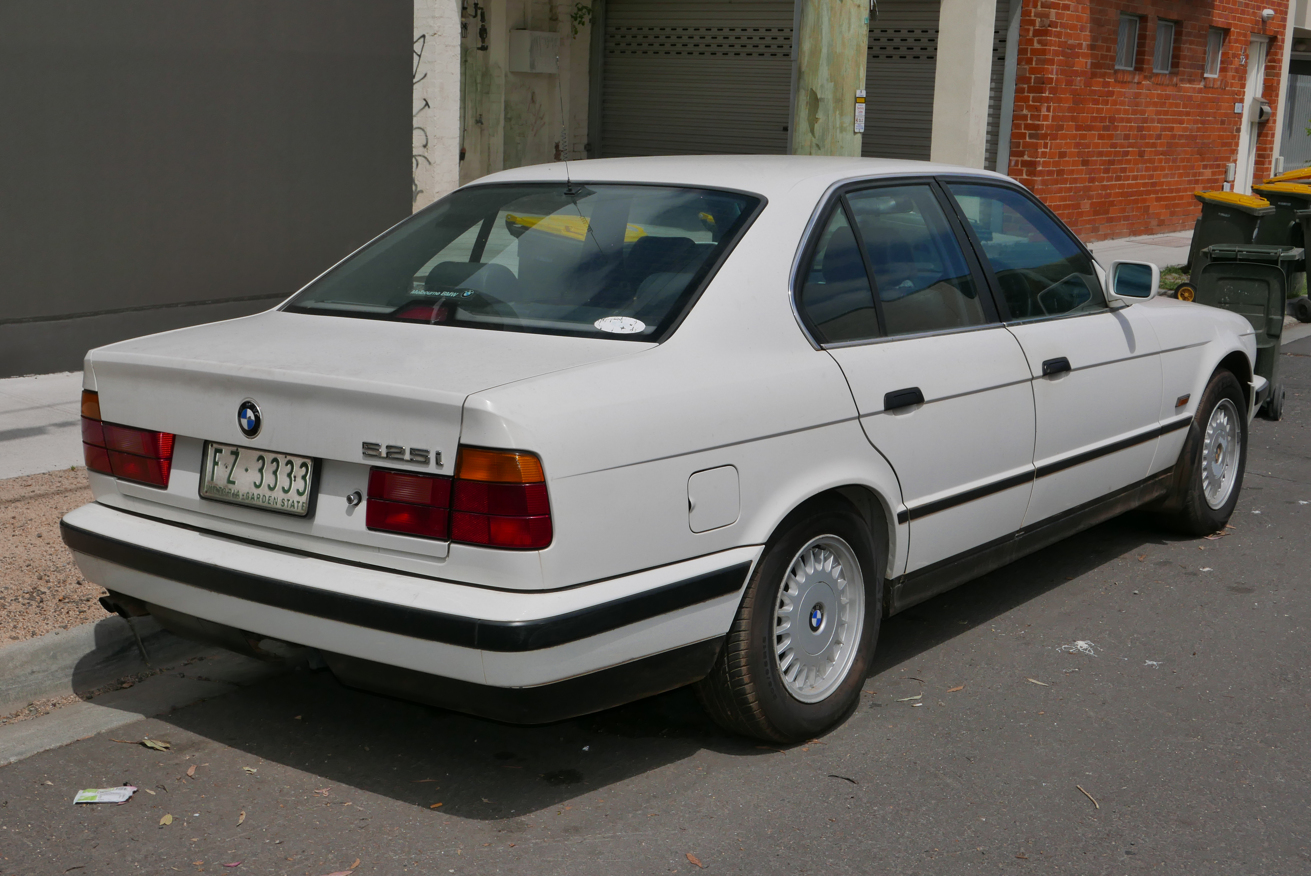 1989 BMW 525i (E34) sedan. Despite the date discrepancy between the description and the vehicle registration information below, a check of the VIN reveals a "production date" of 24 July 1989. Photographed in Brunswick East, Victoria, Australia. Vehicle registration enquiry results Jurisdiction Victoria Registration FZ3333 Chassis code WBAHC22060BE15511 Engine code 21816867 Compliance date 1990-03 Year of manufacture 1990